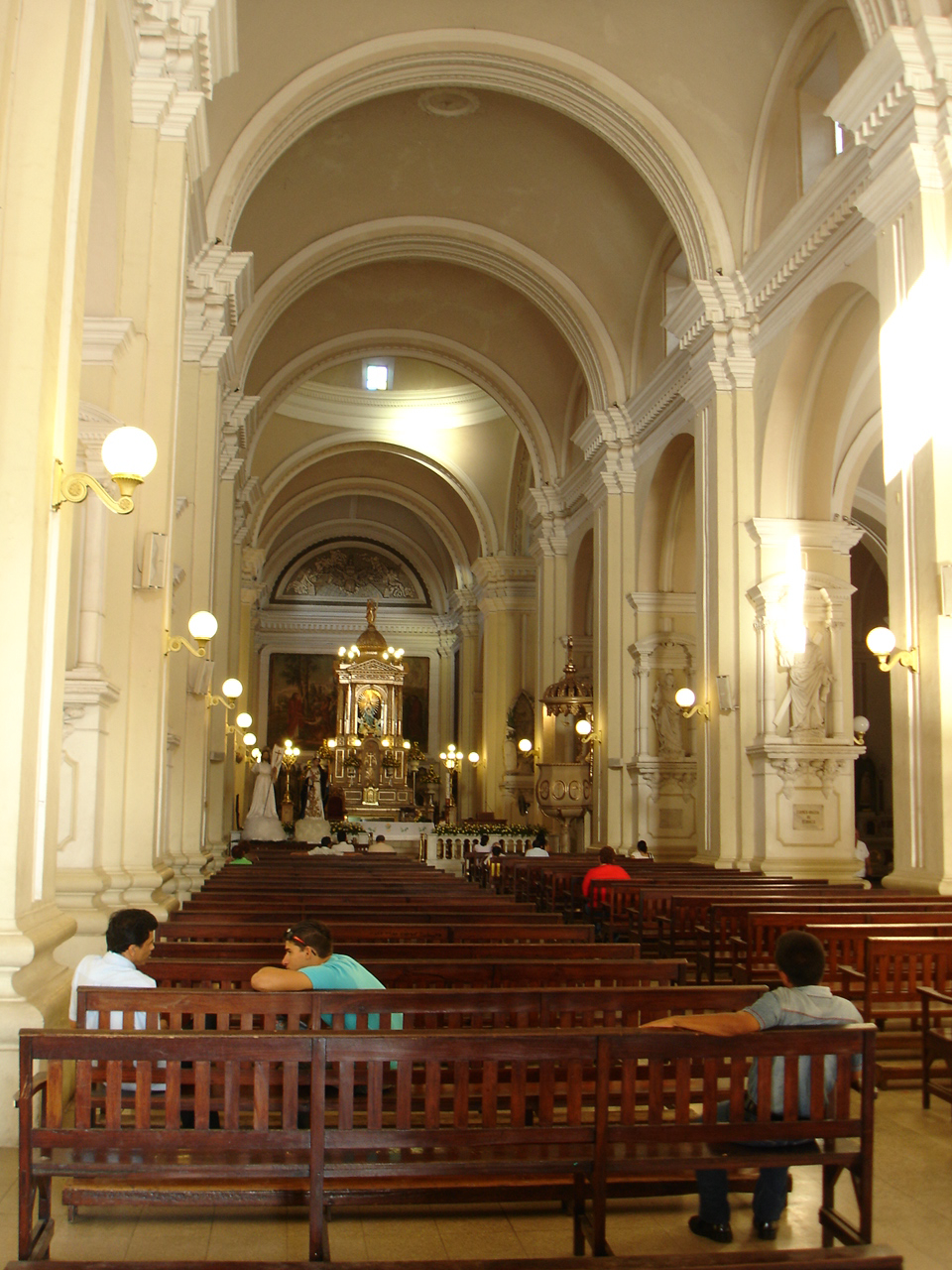 Inner view of the Cathedral of León, Nicaragua